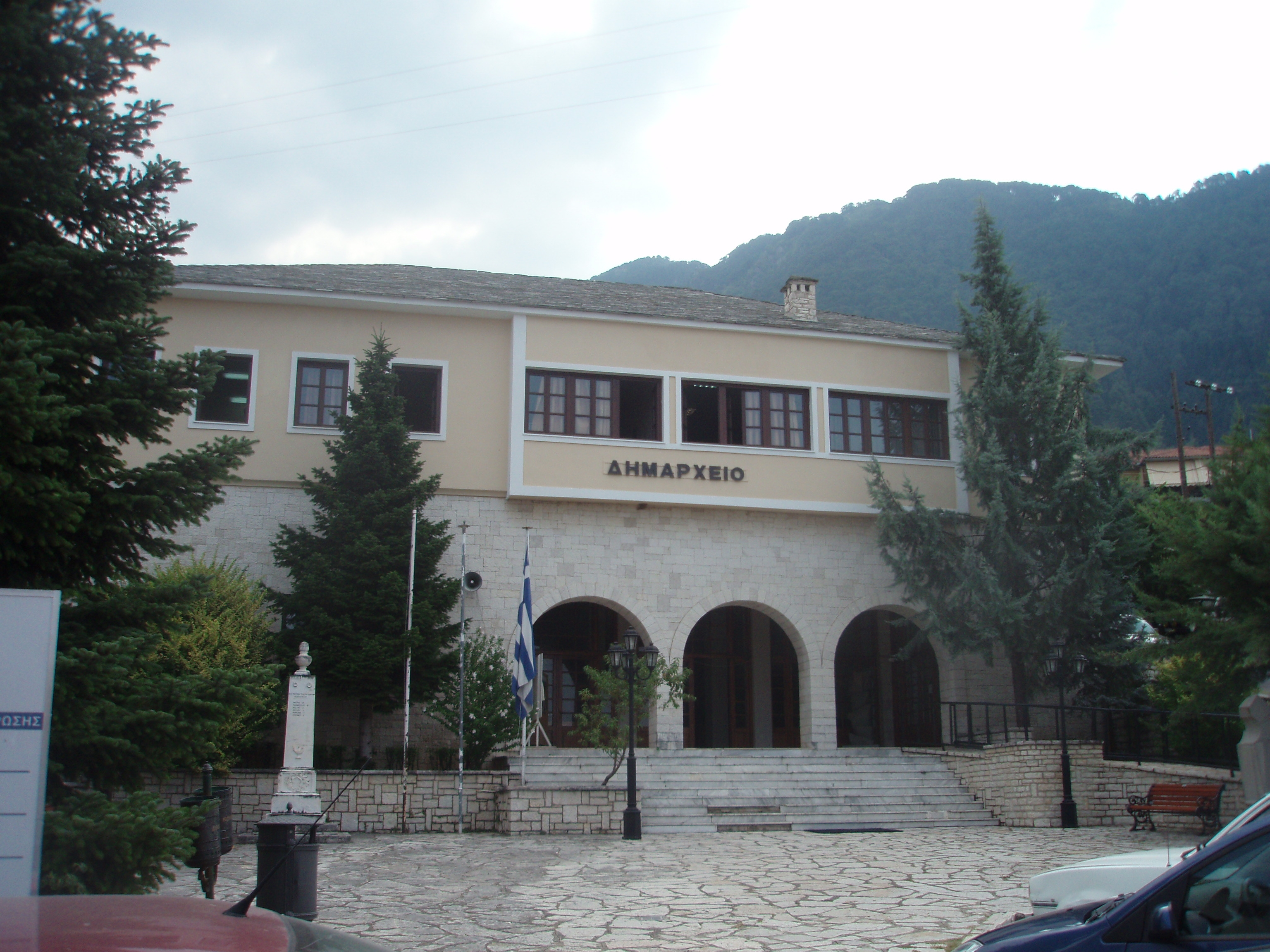 City Hall of Konitsa, Ioannina prefecture, Greece.